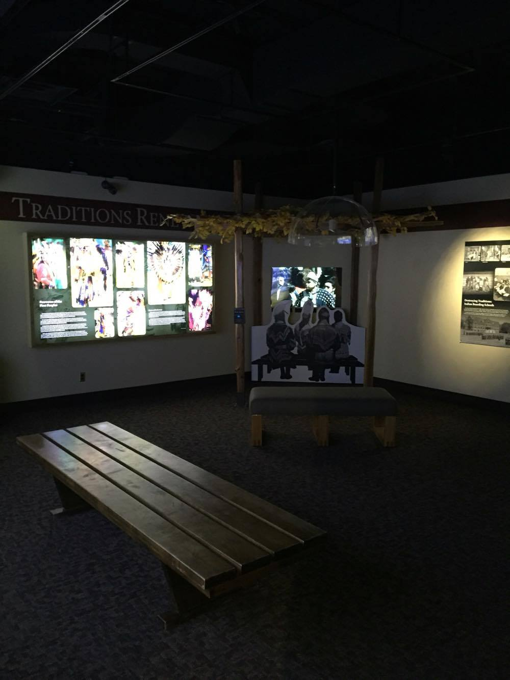 Display